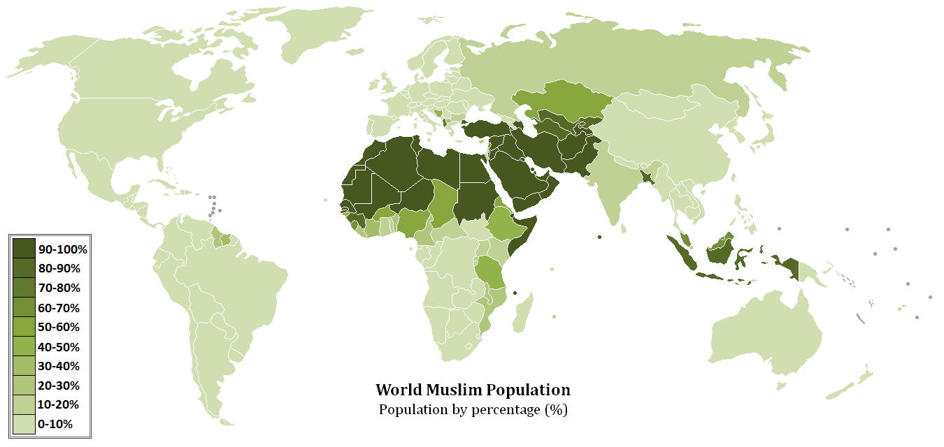 Map of the Muslim Population by Percentage in the World